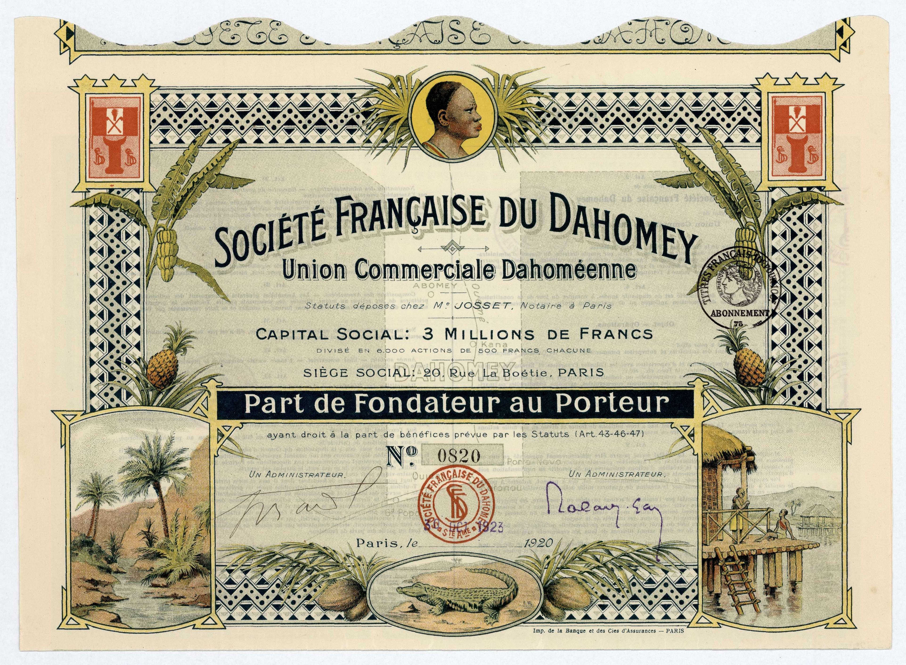 Part de Fondateur of the Société Francaise du Dahomey, issued 30. October 1923